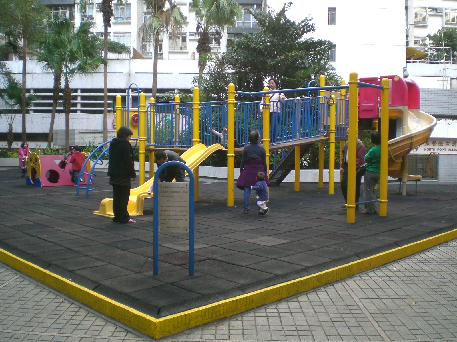 北角 中央zh:公園